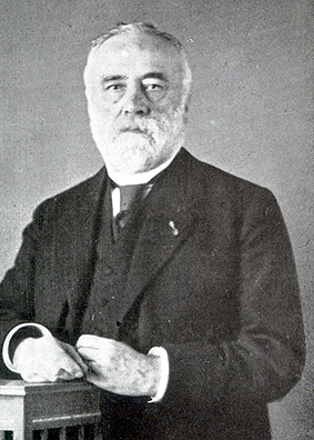 Joannes Coenraad Jansen. Minister of Foreign Affairs of the Netherlands (1884)